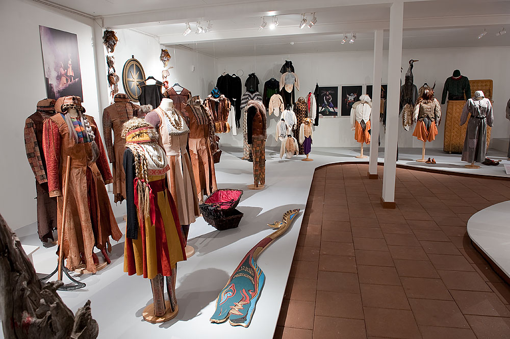 Inger Stinnerbom, Västanå Teater. Kostymutställningen. Foto Lars Sjöqvist